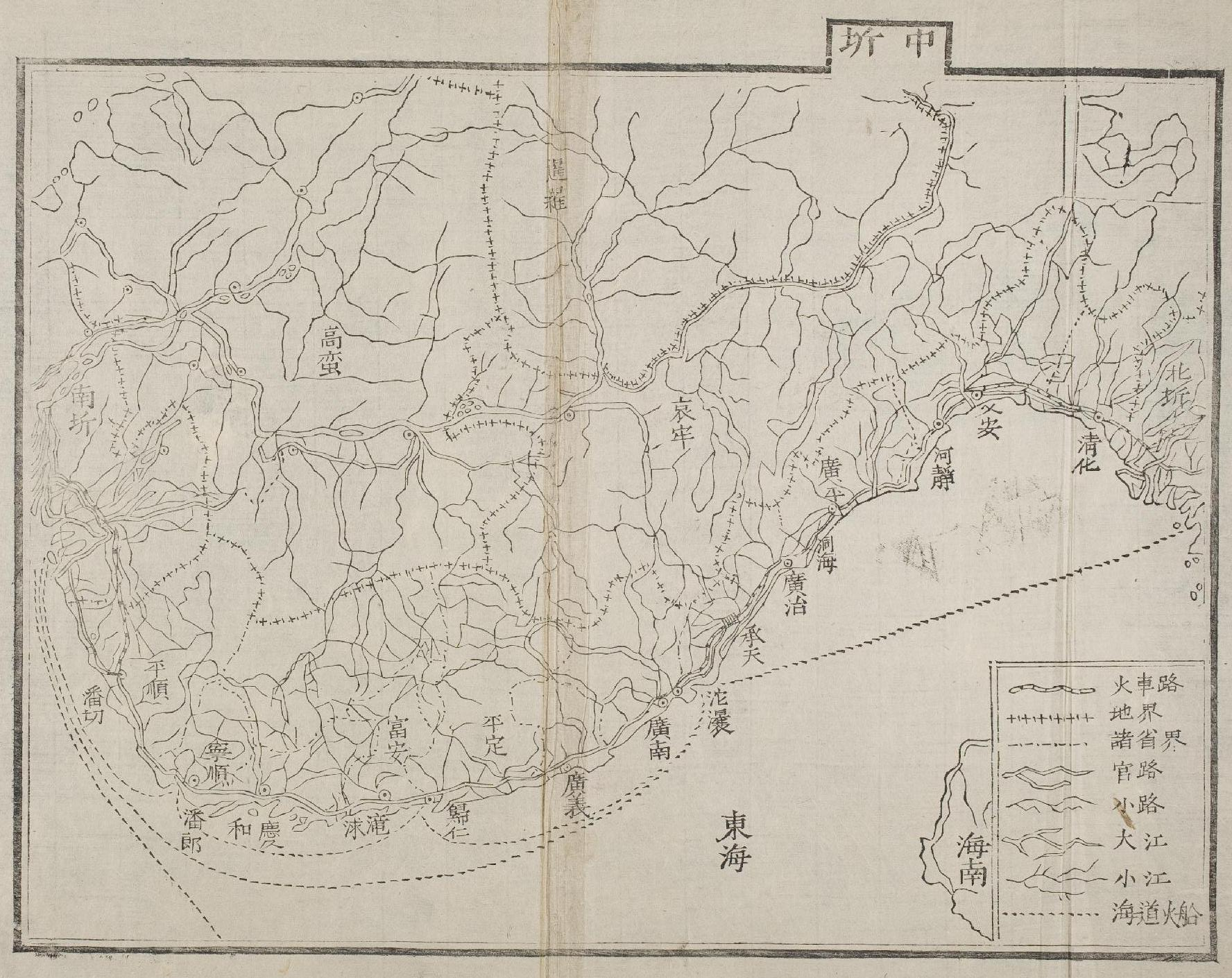 The map of Trung Ky (now Bac Trung Bo and Nam Trung Bo, Vietnam), administrated by the Annam Protectorate (Nguyen Dynasty) by 1909.